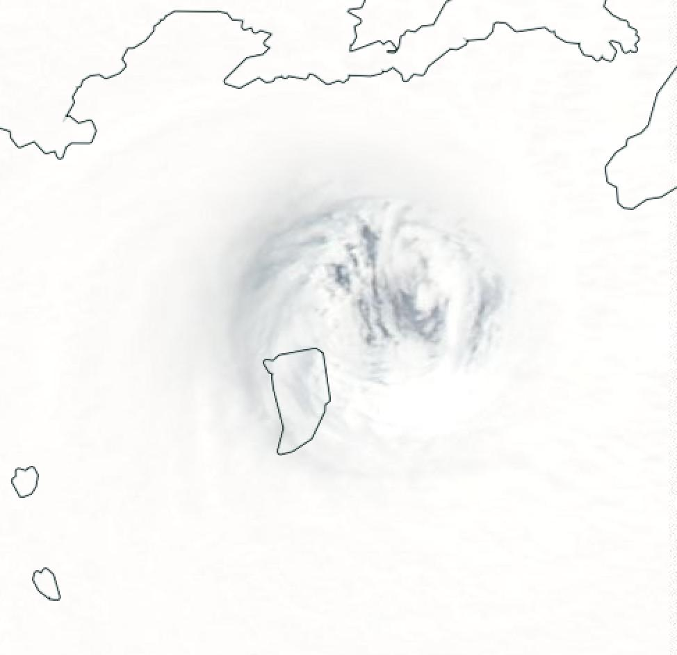 The eye of Severe Tropical Cyclone Winston over Koro Island, Fiji, on February 20, 2016